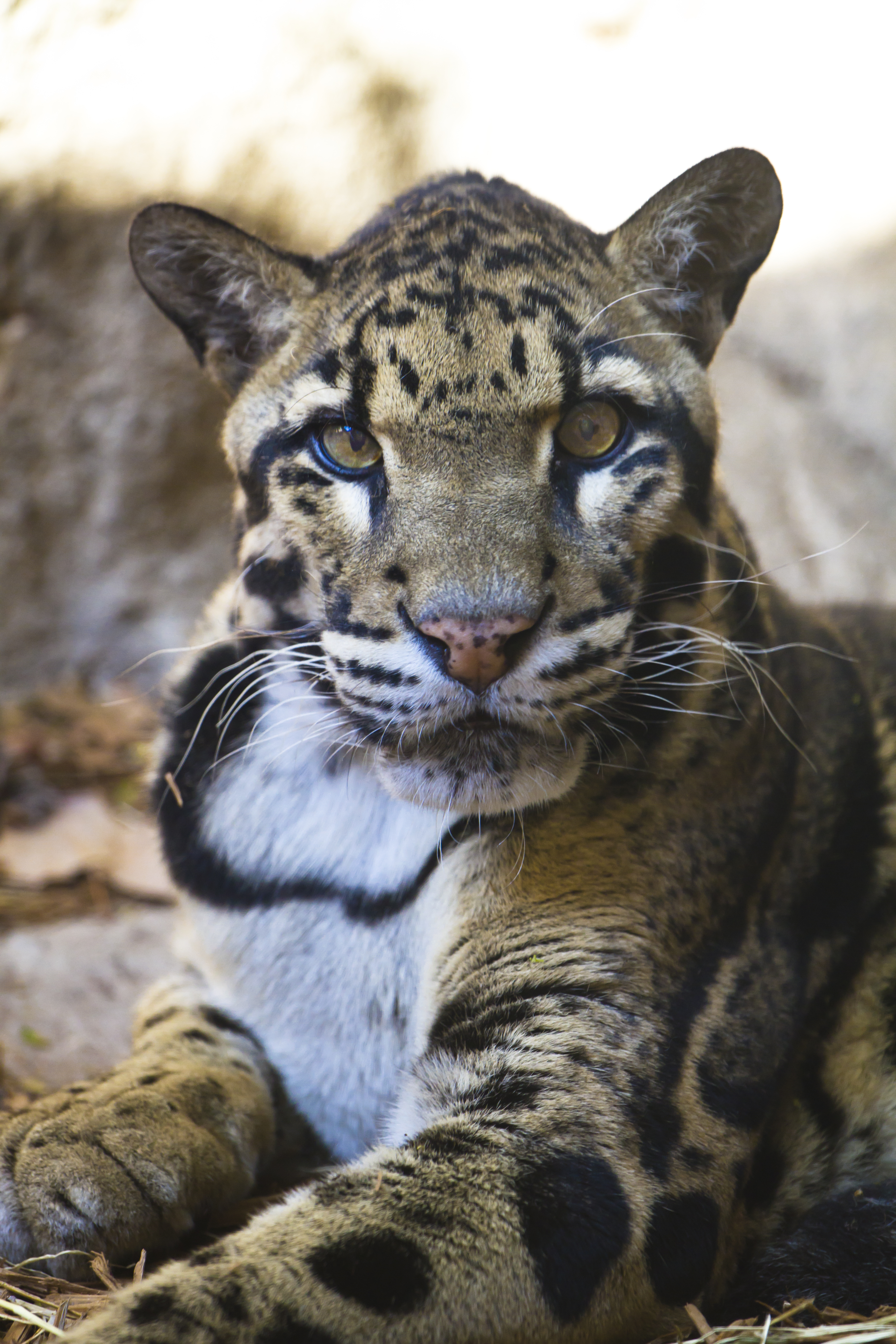 Head of Clouded leopard at San Antonio Zoo, Texas, USA (October 26, 2011).